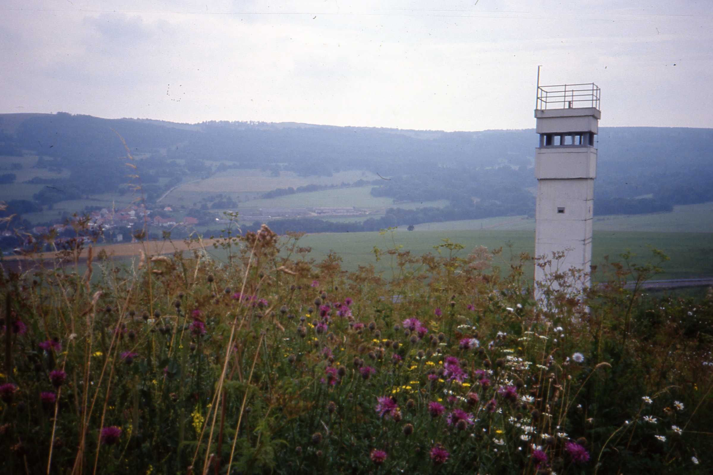 Watch tower at the Inner German border, near Hilders (West Germany), taken in August 1991. The nearest DDR villages in the Grenzgebiet were Unterweid and Oberweid. This watch tower may have been demolished by now. It was not part of any museum. This border crossing would not have been open since about 1952.